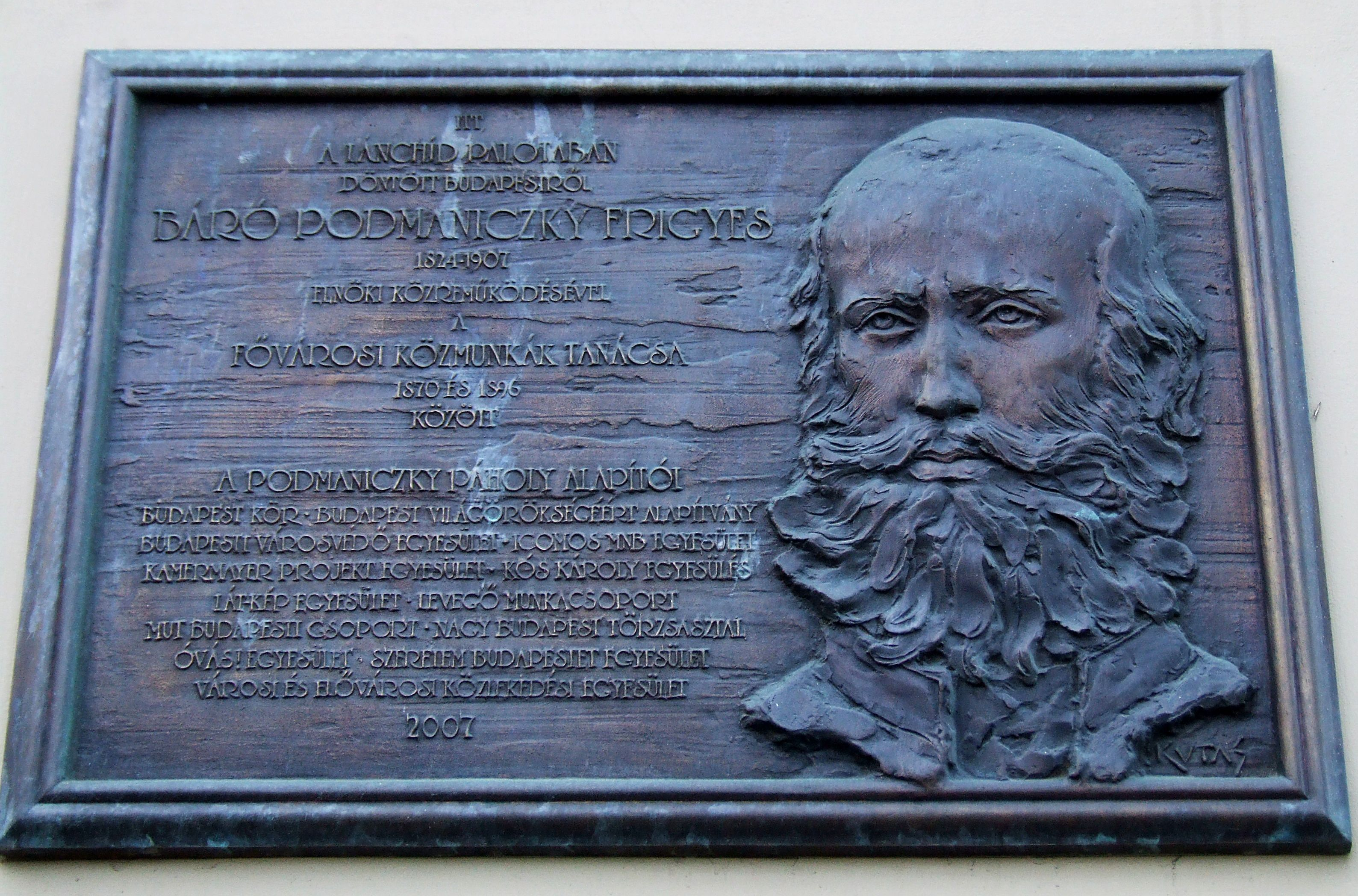 Frigyes Podmaniczky commemorative plaque in Budapest District I (on the corner of Clark Ádám Square and Fő Street)